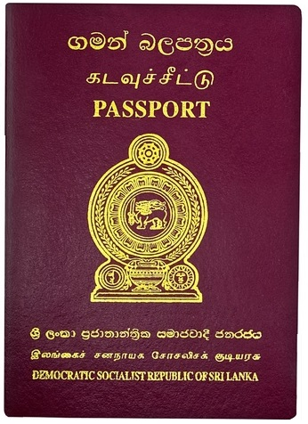 Sri Lankan non-biometric Ordinary Passport